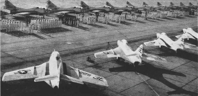 Grumman TF-9J Cougar trainers of U.S. Navy training squadron VT-21 at Naval Auxiliary Air Station Kingsville, Texas (USA) in 1963.